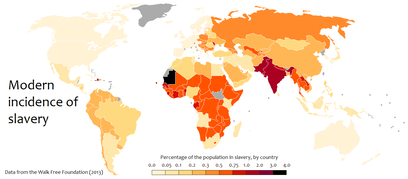 Modern incidence of slavery, as a percentage of the population, by country: Global Slavery Index. Color values are based on median estimates rounded to the nearest 0.05%. Data from Sudan does not account for the independence of South Sudan, and will differ depending on if slavery was concentrated in the north or the south. Estimates by sources with a broader definition of slavery will be higher.